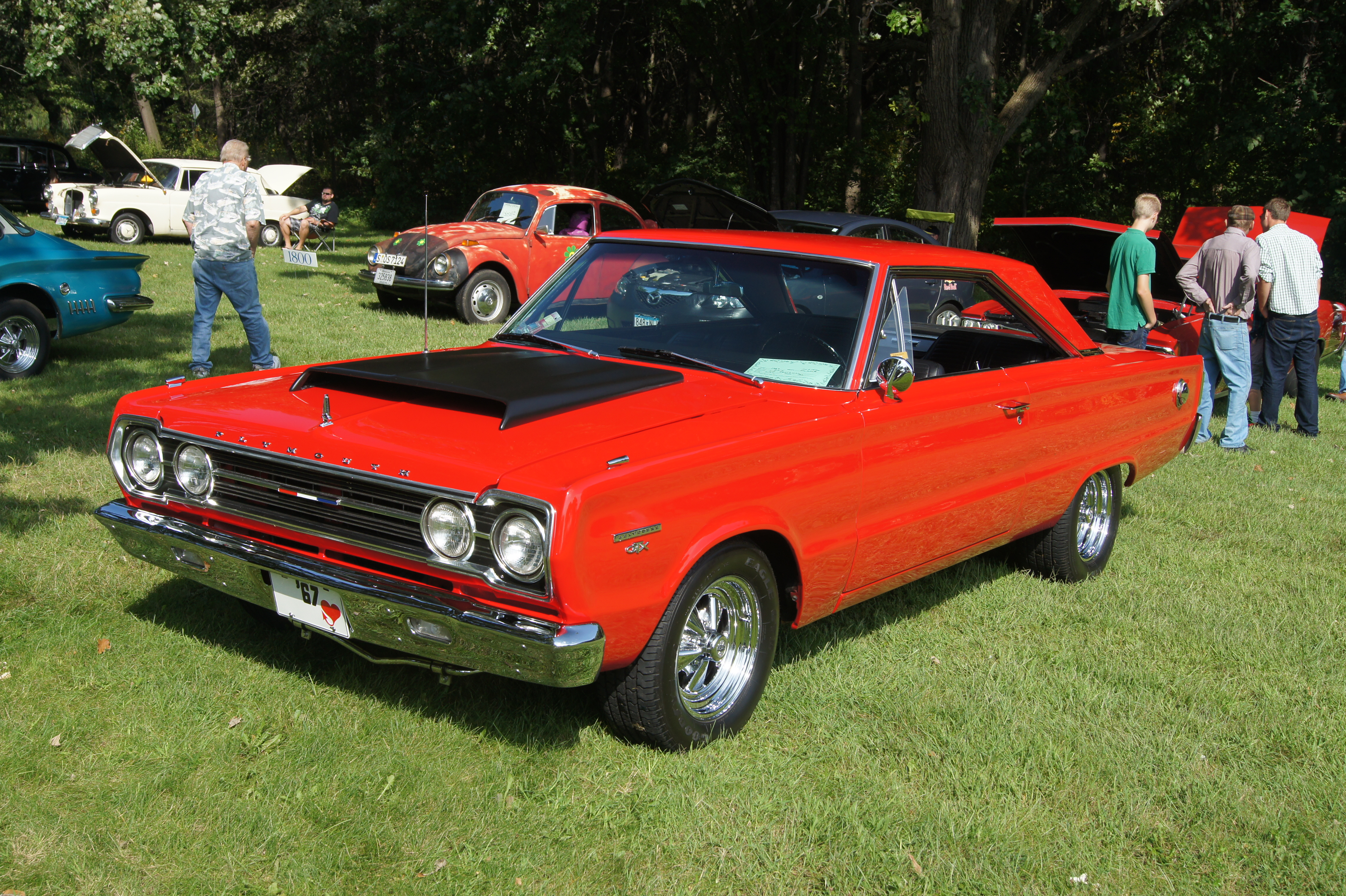 47th Annual Twin Cities Collectors Car Show & Swap Meet August 2014 Aquatore Park Blaine, Minnesota More car pictures separated by make by clicking on this Flickr link